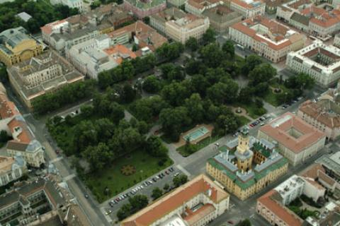 Aerial of the Széchenyi Square at Szeged.